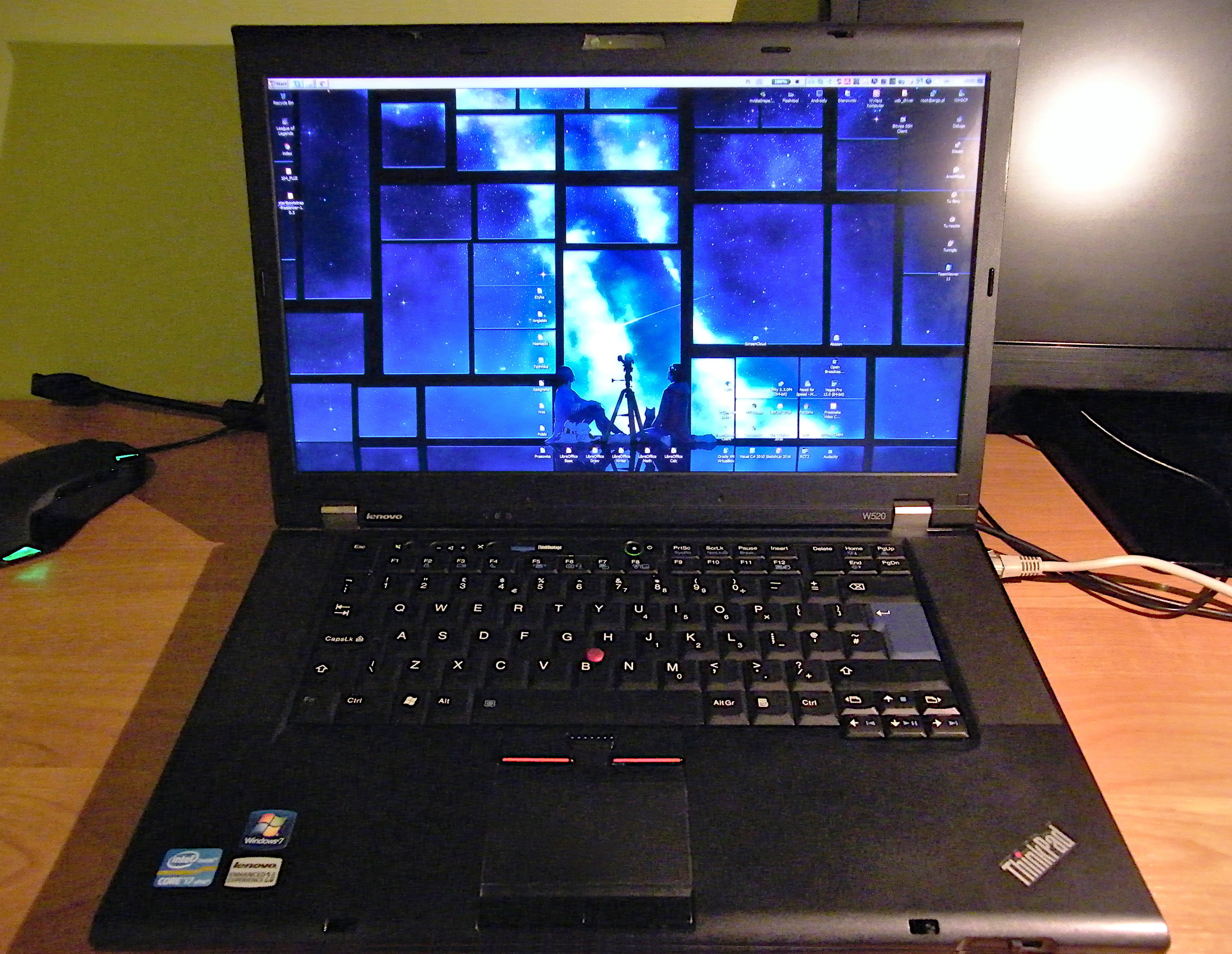 W520 front